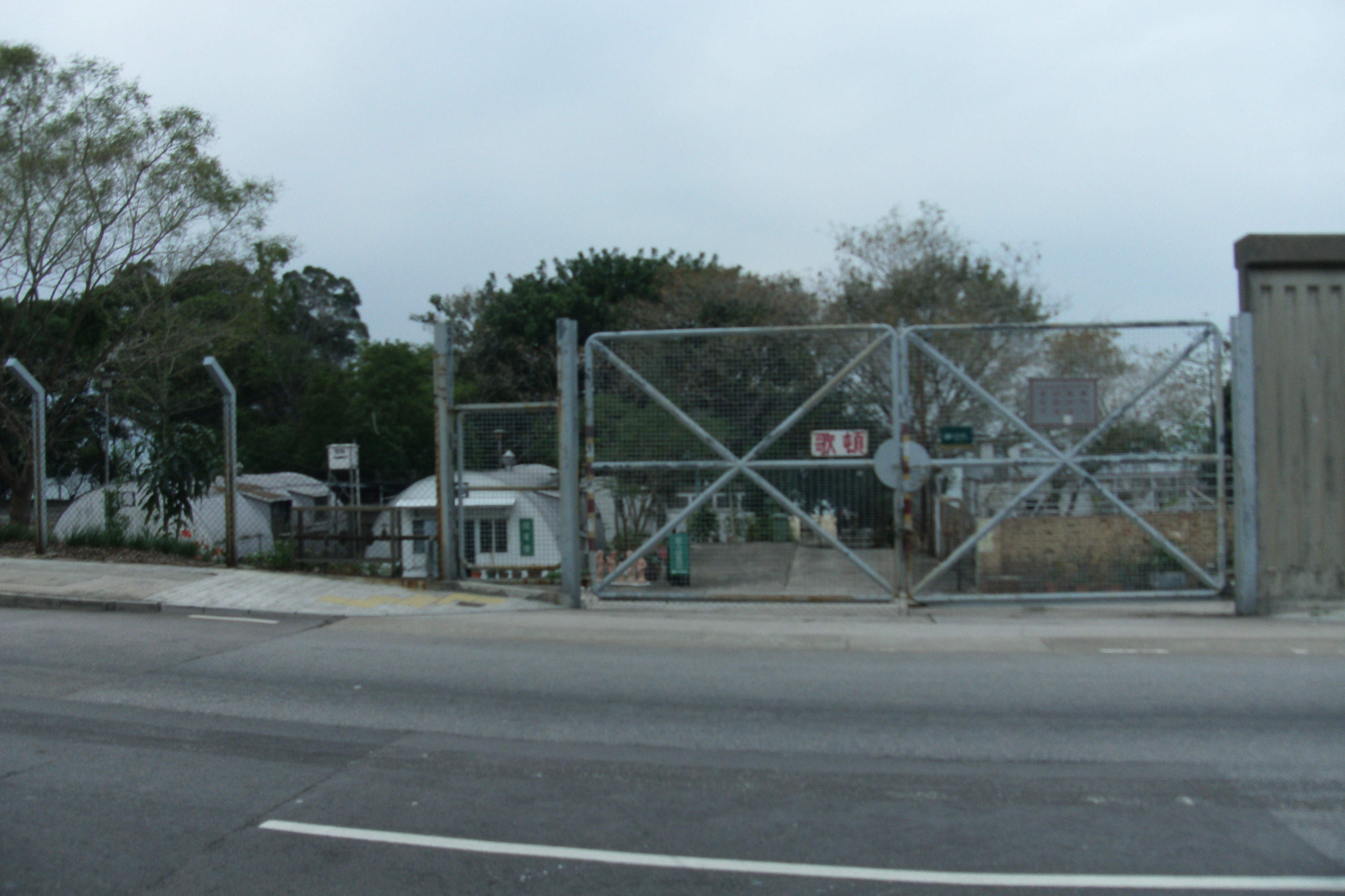 Gordan Hard from Castle Peak Road